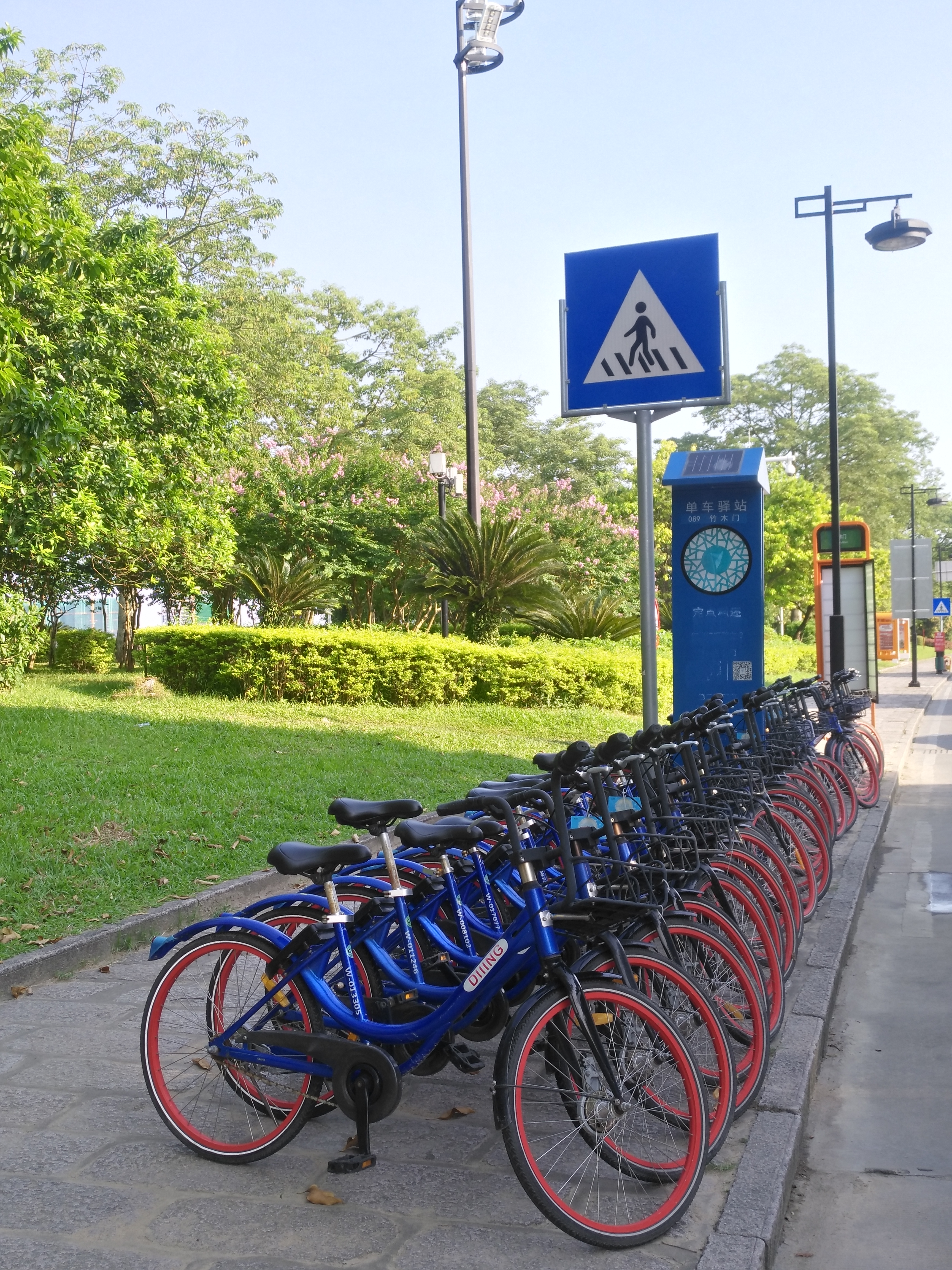 A Dingda Bike Station in Chaozhou, Guangdong, China.